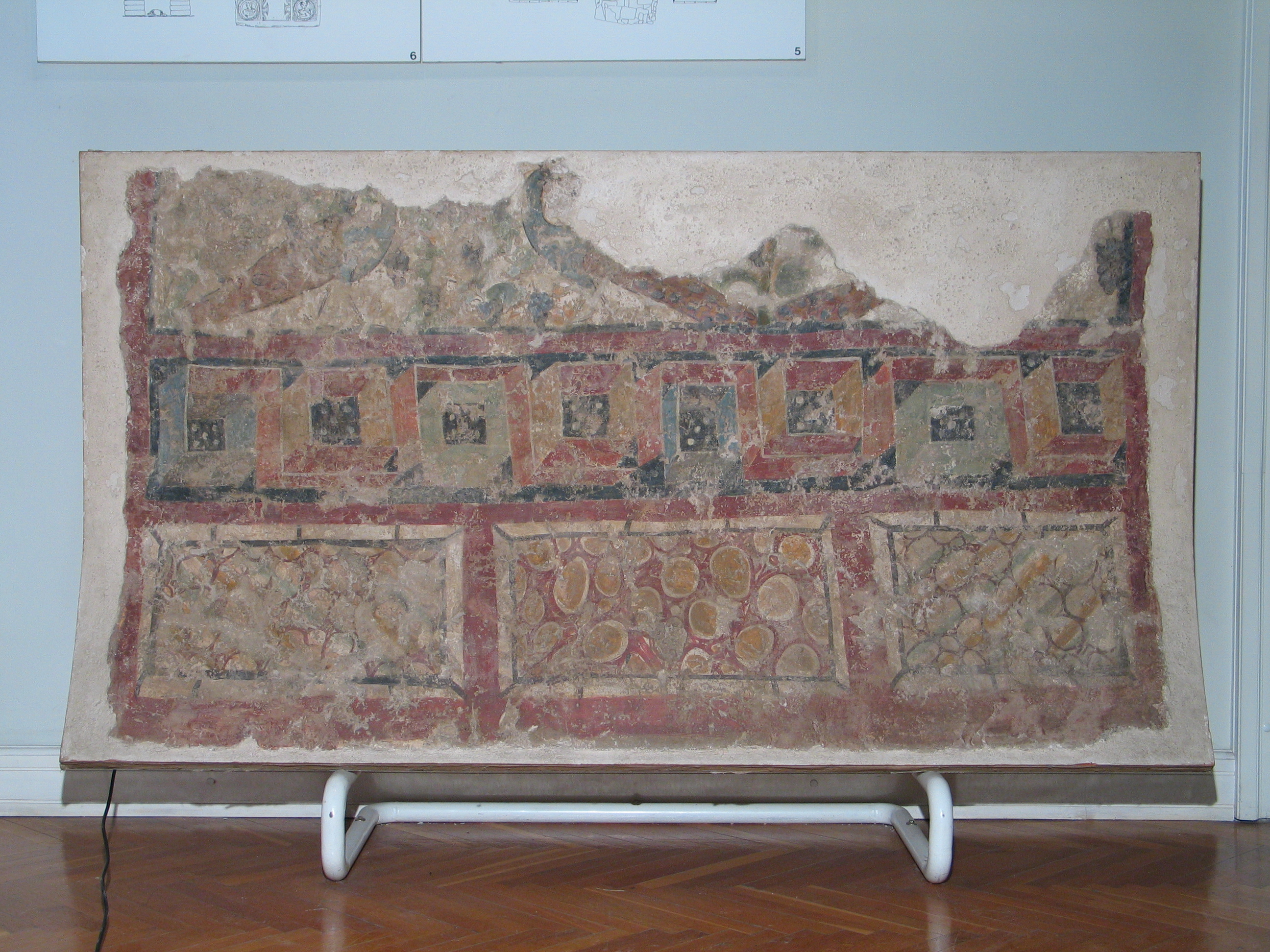 Northern side of the tomb with a fresco showing peacocks, geometric motifs and marble slabs, archaeological site Beška-Brest (late 3rd and early 4th century). Srpski (latinica): Severna strana grobnice sa freskom na kojoj su prikazani paunovi, geometrijski motivi i mermerne ploče, arheološki lokalitet Beška-Brest (kraj 3. i početak 4. veka).